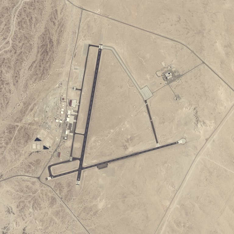 United States Geological Survey view the of Laguna Army Airfield outside of Yuma, Arizona